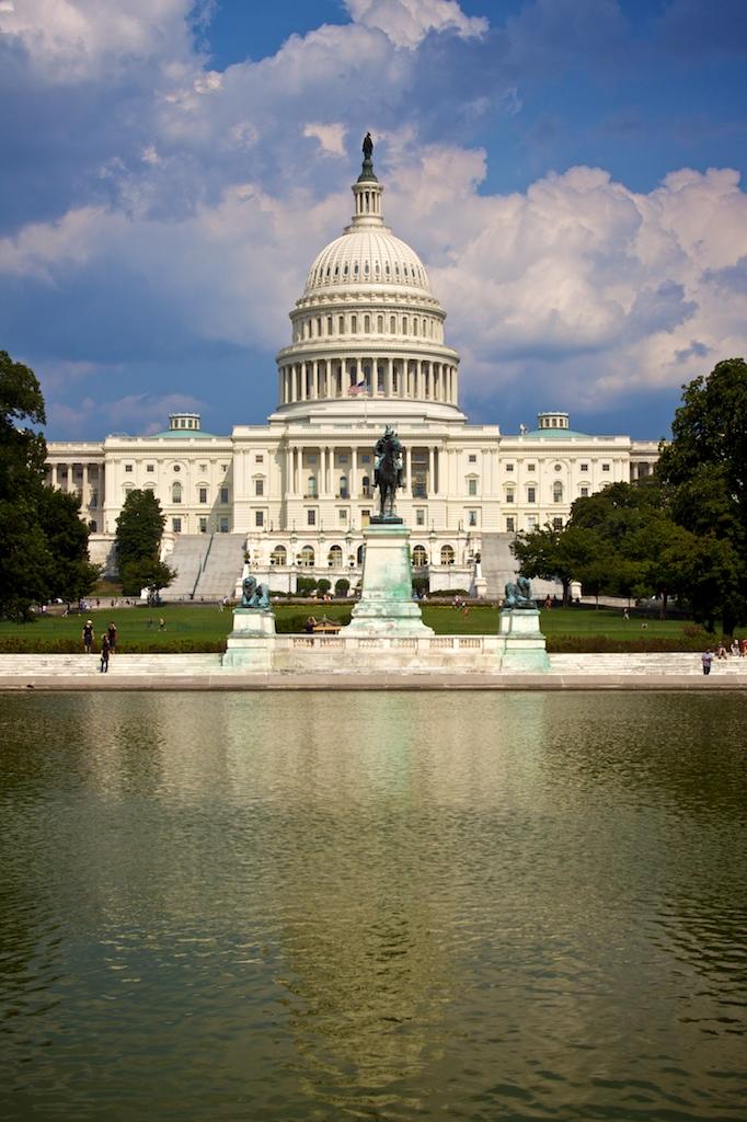 photograph taken of Capitol Hill and its reflecting pool from the grounds of the National Mall.